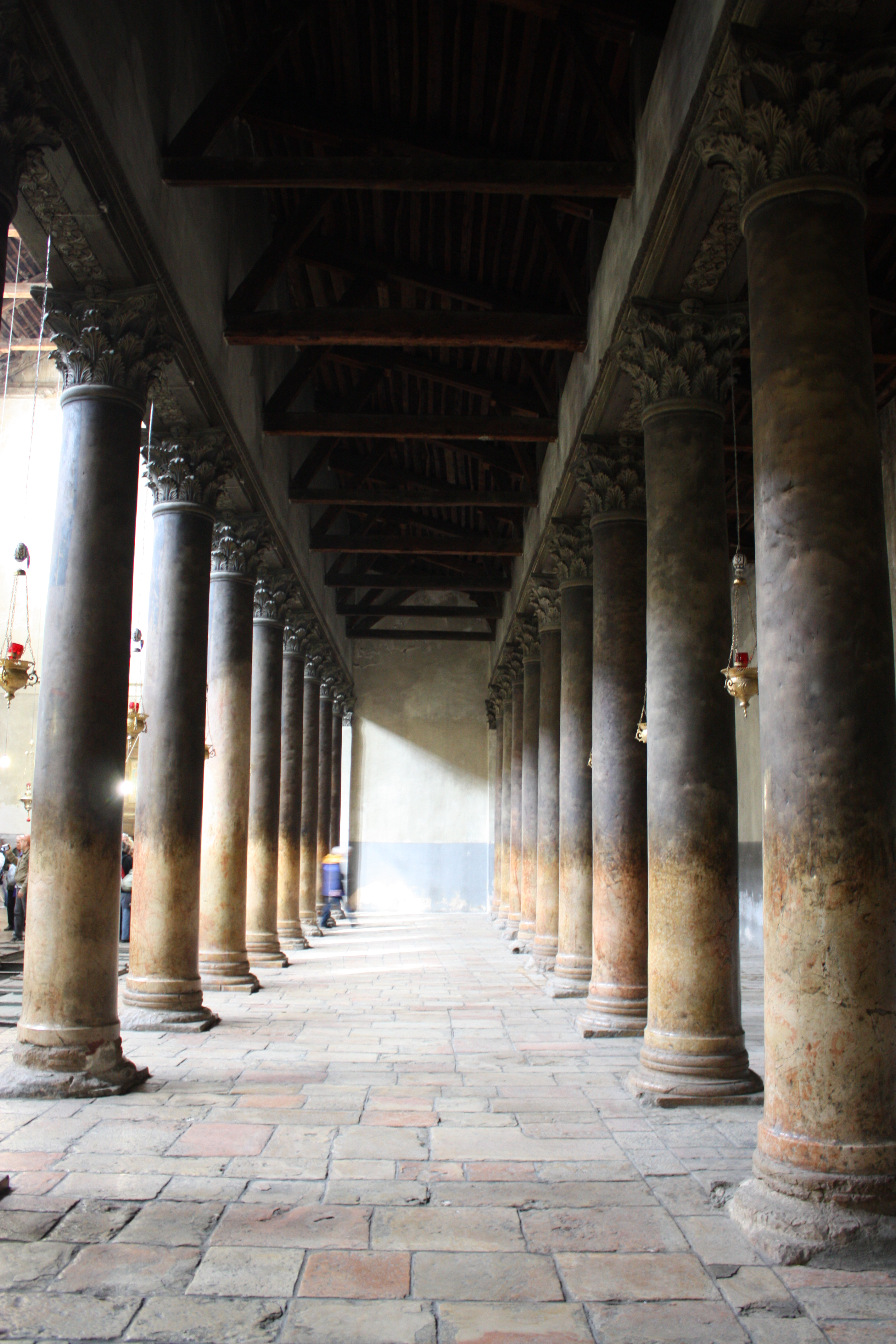 North aisle in the Church of the Nativity.